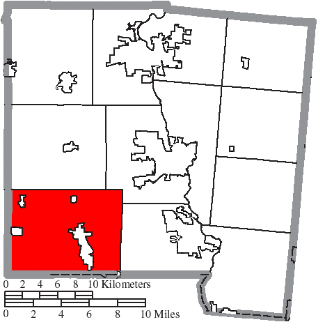 Map of the municipal and township boundaries of Miami County, Ohio, United States, as of the 2000 census, with the location of Union Township highlighted. Township borders are shown only in unincorporated areas in order to differentiate incorporated and unincorporated areas more clearly.